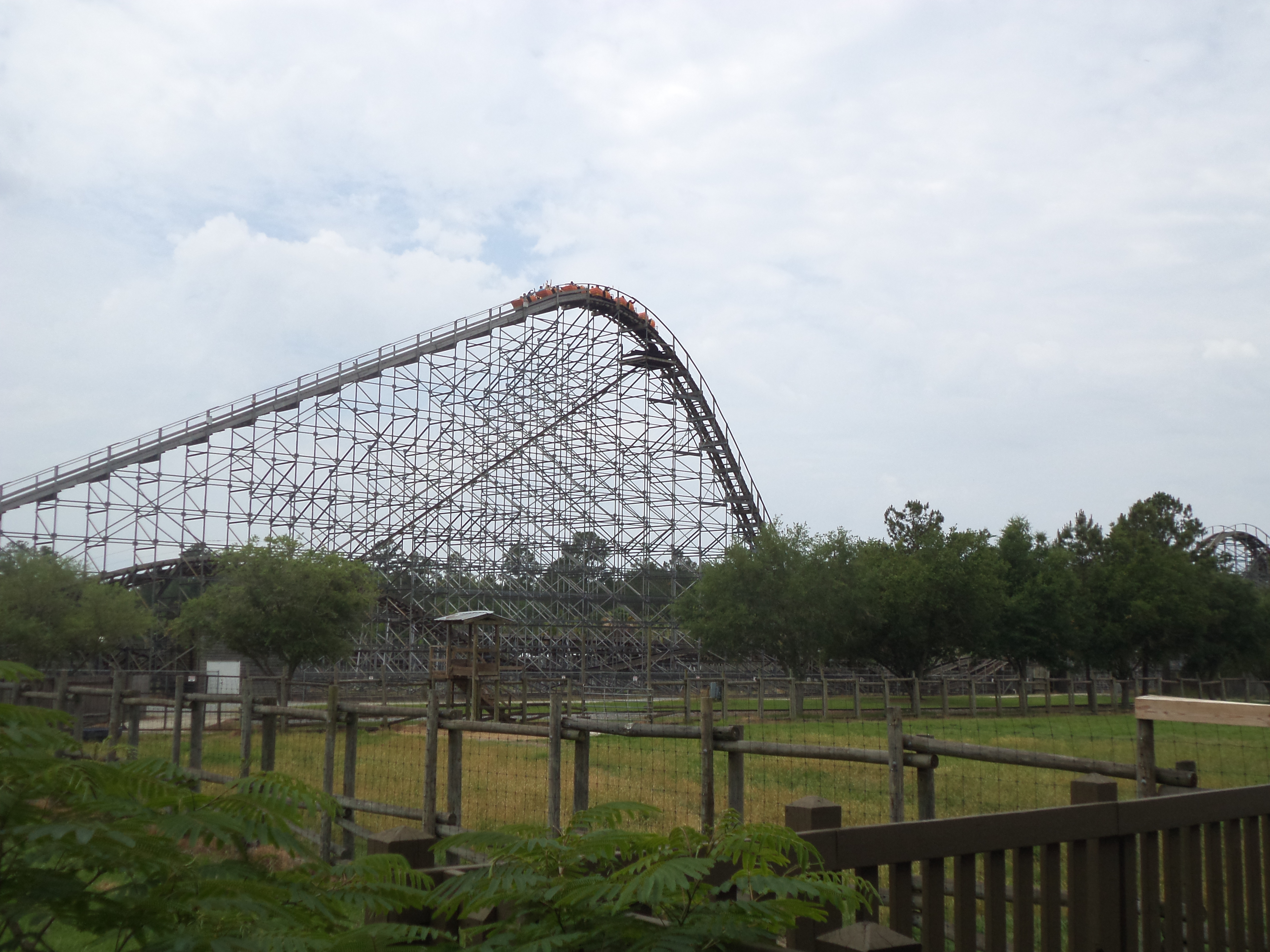 Cheetah roller coaster cresting hill at Wild Adventures as viewed from the giraffe feeding area, Lowndes County, Georgia